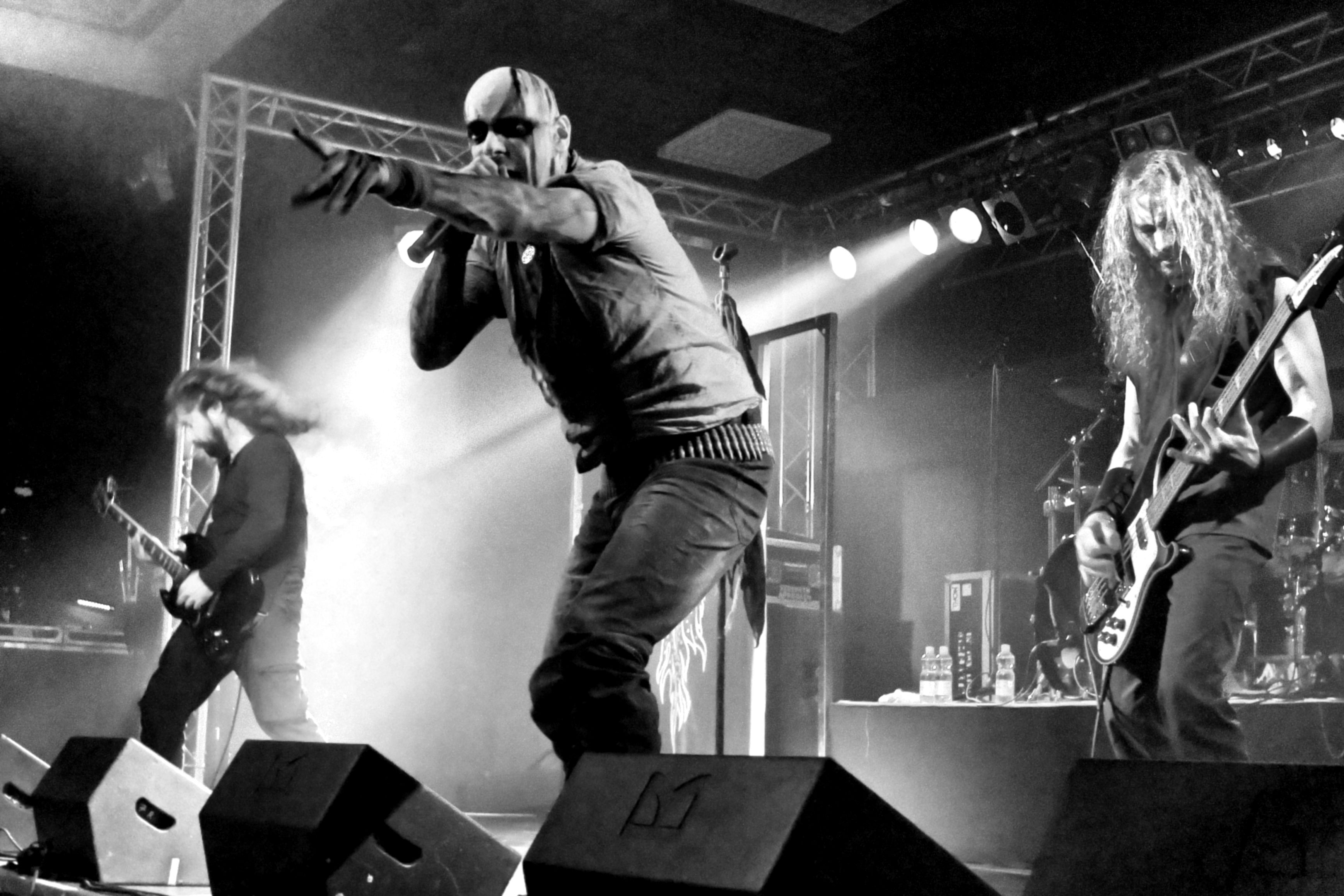 Primordial performing live at Paganfest 2012 in Leipzig.